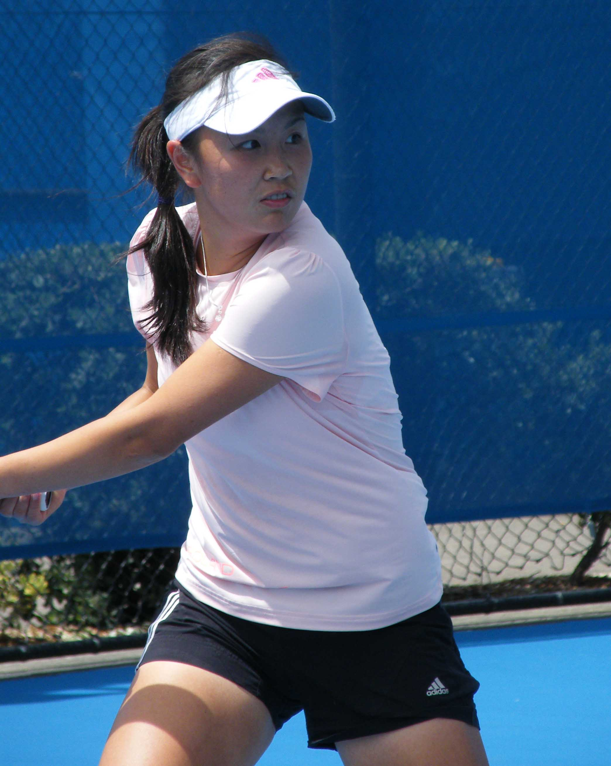 Peng Shuai of China - NSW Tennis Open, January 2009.